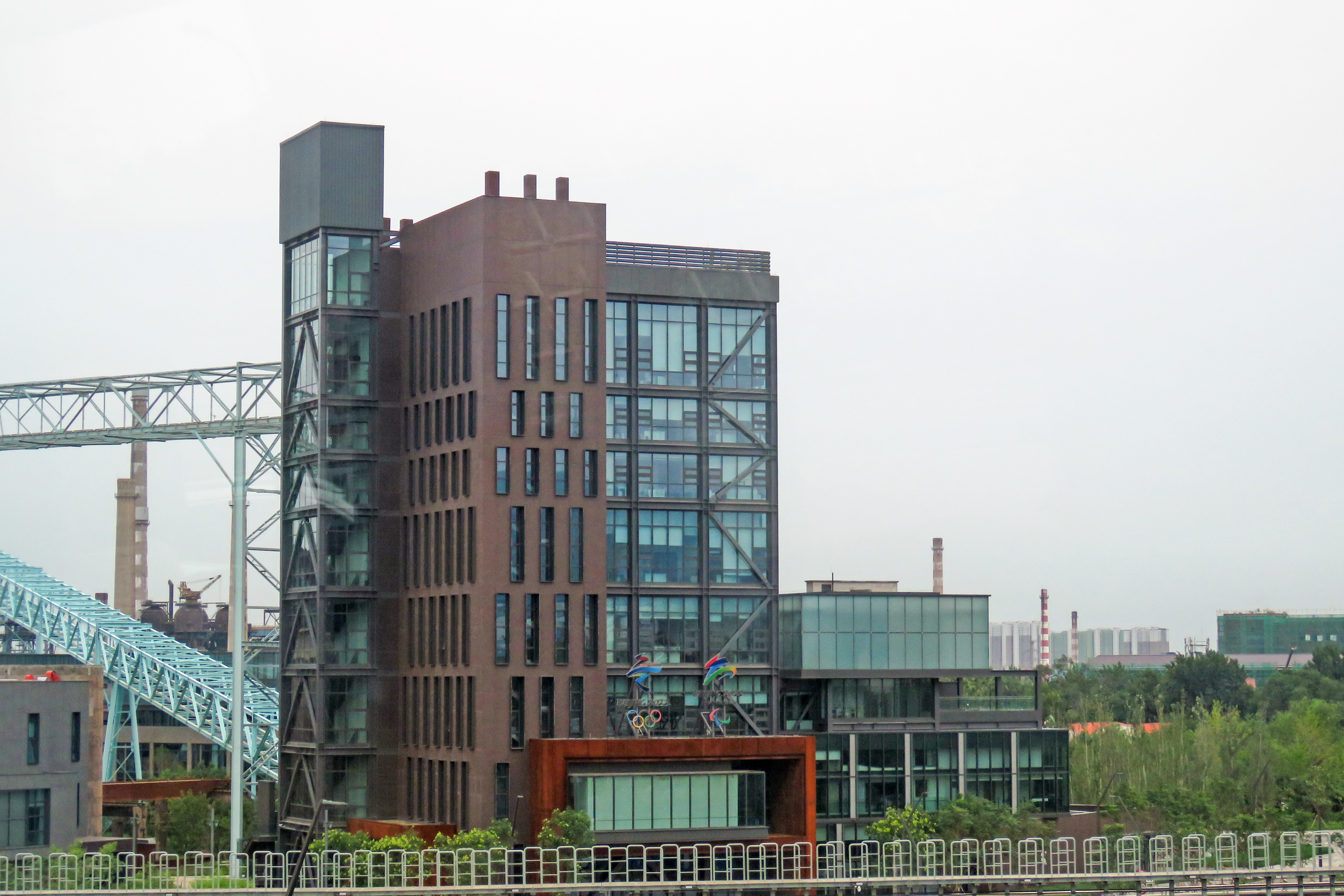 On the site of Shougang steel factory.